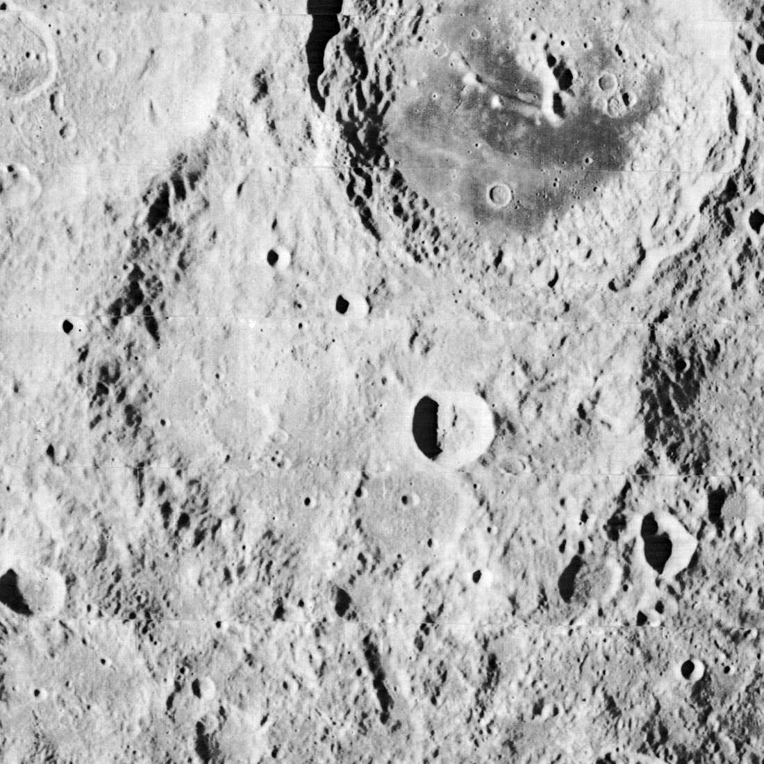 Vertregt, on the far side of the moon. Aitken crater is in upper right.